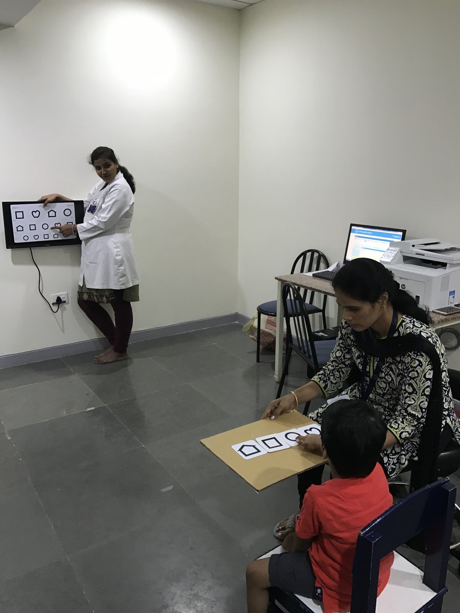 A child receives care at the Special Needs Vision Clinic